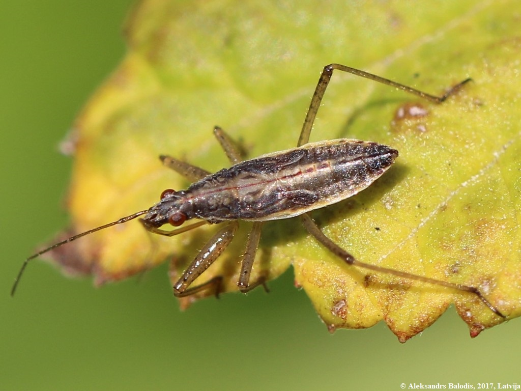 Nabis ferus